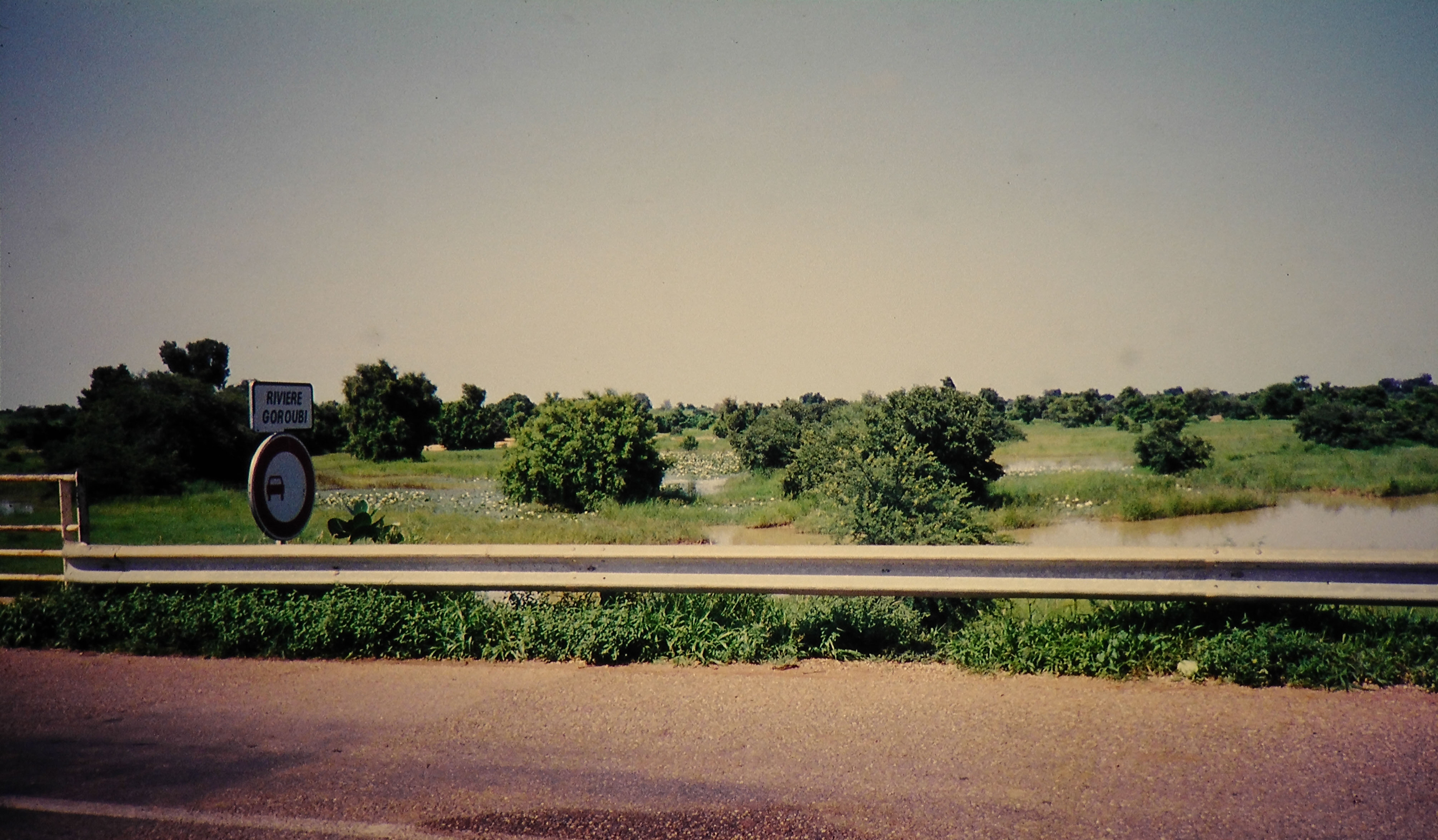 Goroubi river in Torodi, Niger.